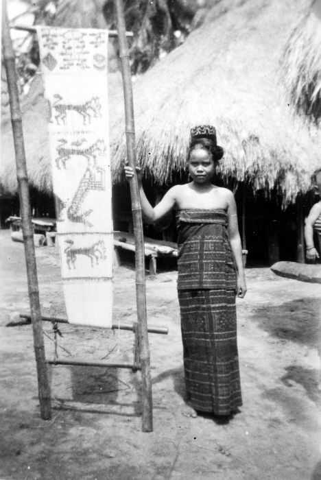 Ikat textile, Sumba